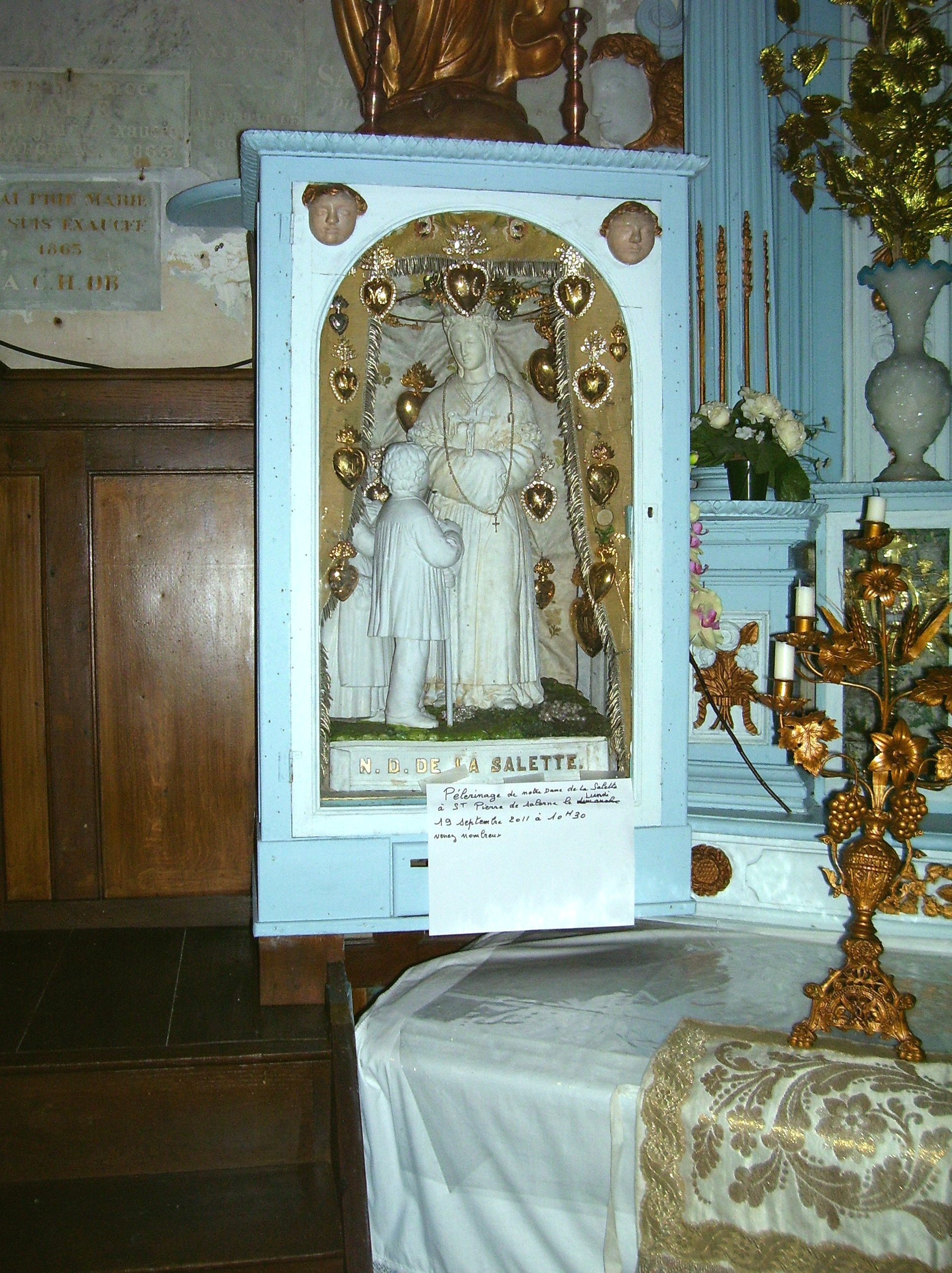 Shrine (1861) of Notre-Dame de la Salette in the church of Saint-Pierre-de-Salerne (Eure, Haute-Normandie, France).